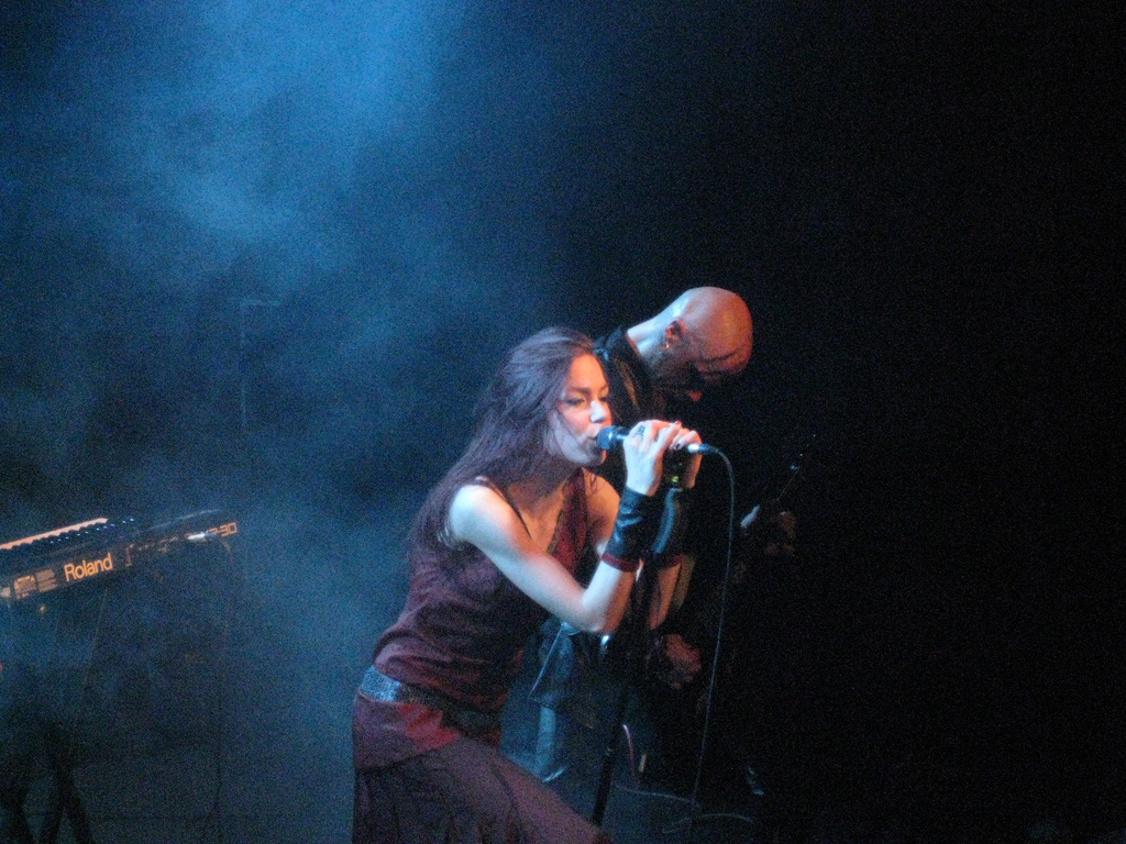 Battlelore live at Nosturi. Tuska Open Air Metal Festival in Helsinki, Finland -- June 2008.